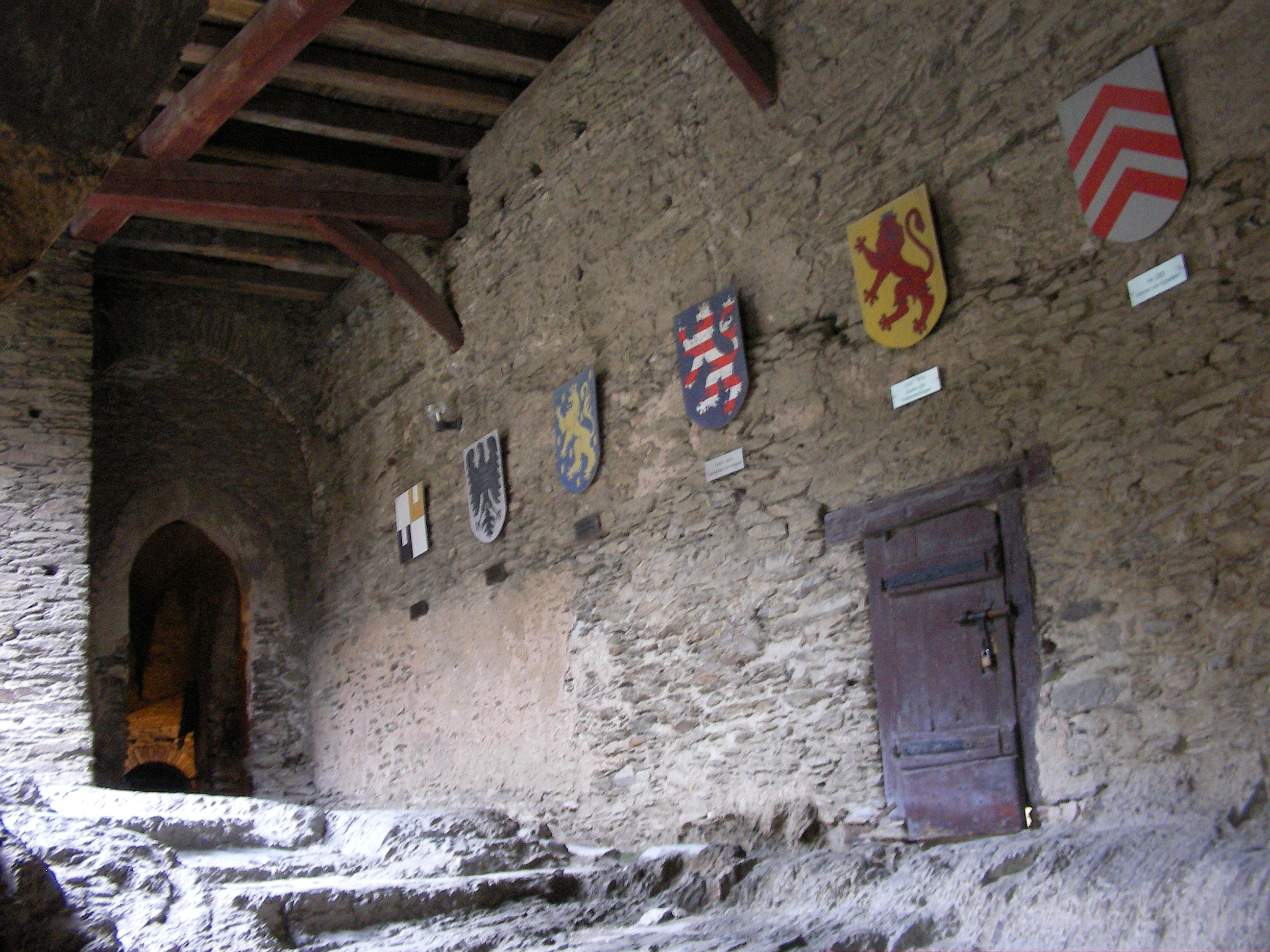 Marksburg/Rhine Valley, knights' staircase and coats of arms, Germany